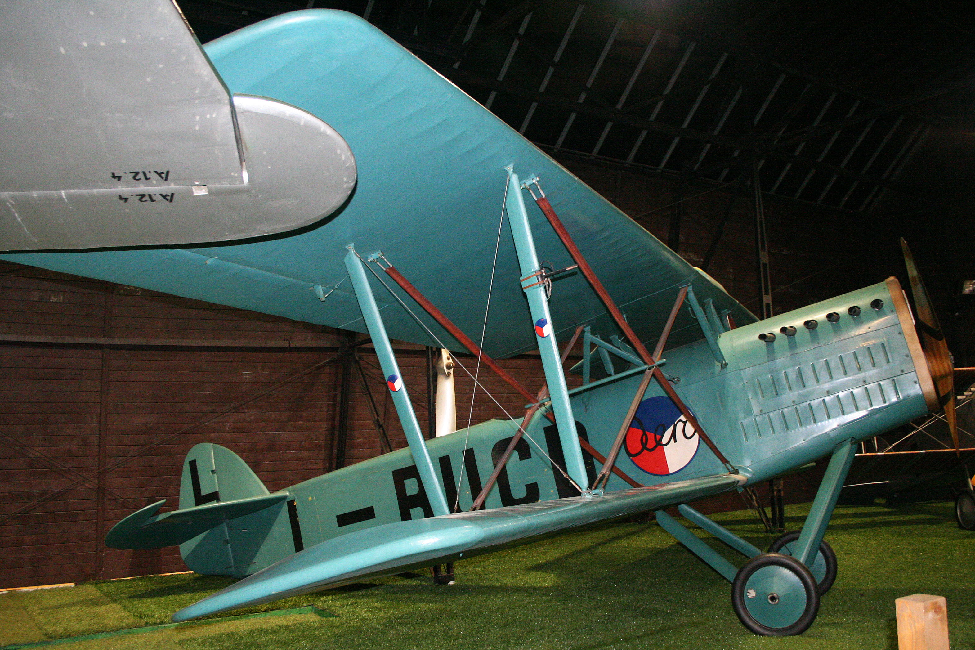 On display in the 1925-1938 hangar. Kbely Museum, Czech Republic. 07-10-2012